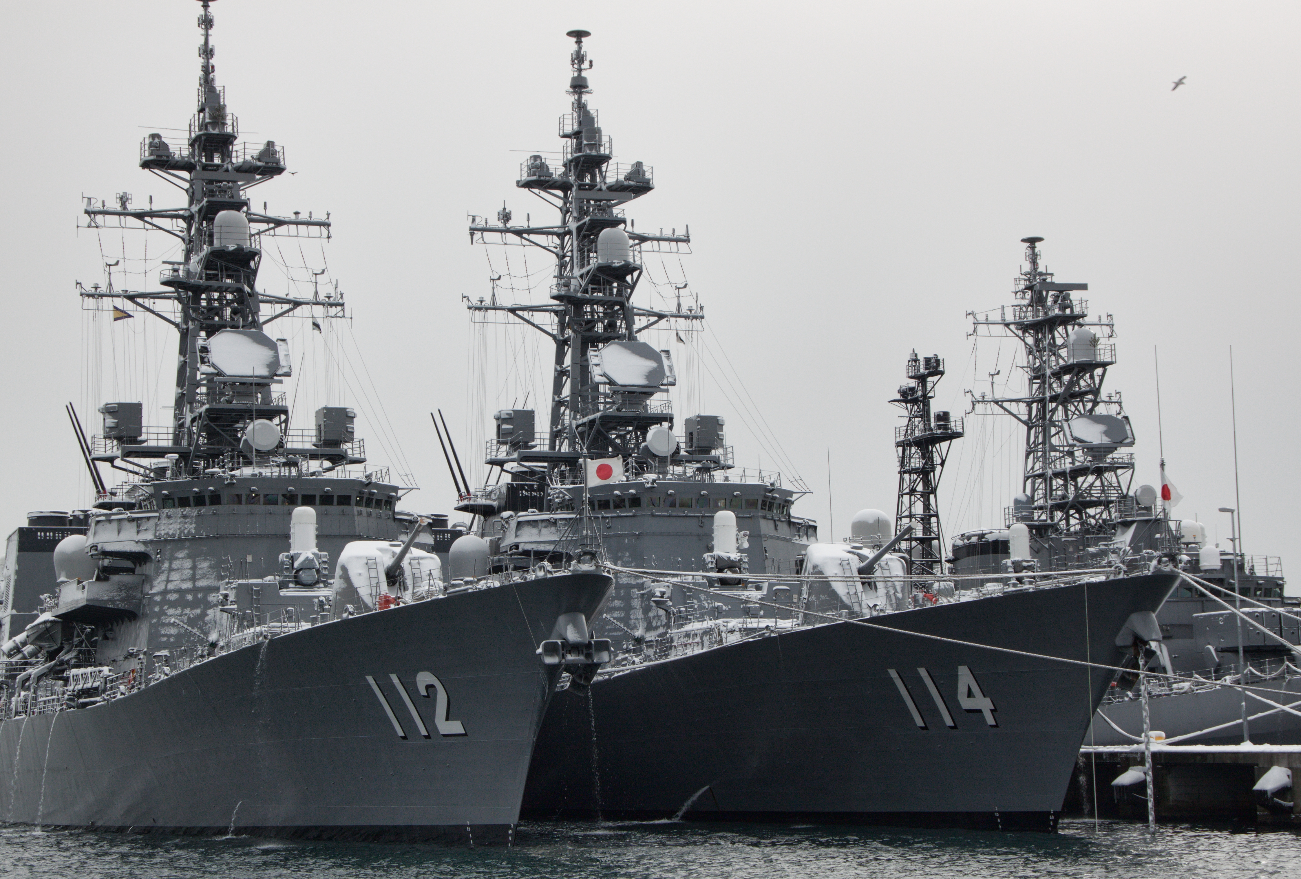 JS Makinami (DD-112) and JS Suzunami (DD-114) moored at Ōminato Base. Canon EOS Kiss X3